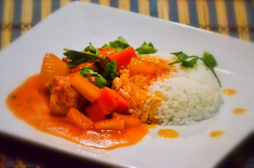 Chicken Afritada on white rice with pineapple tidbits (Philippines) (white border removed)